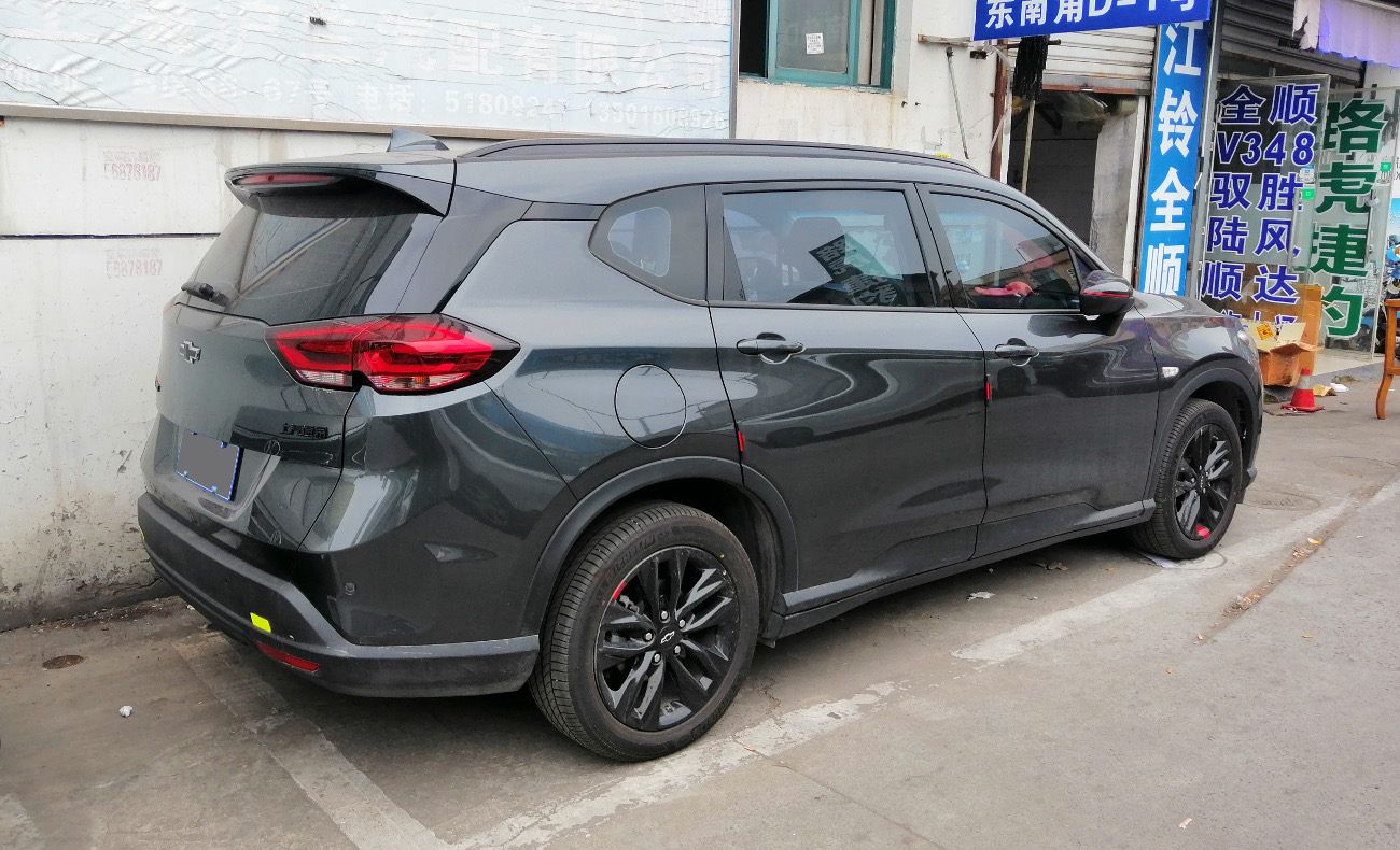 Chevrolet Orlando CN Red Line photographed in Shanghai, China.